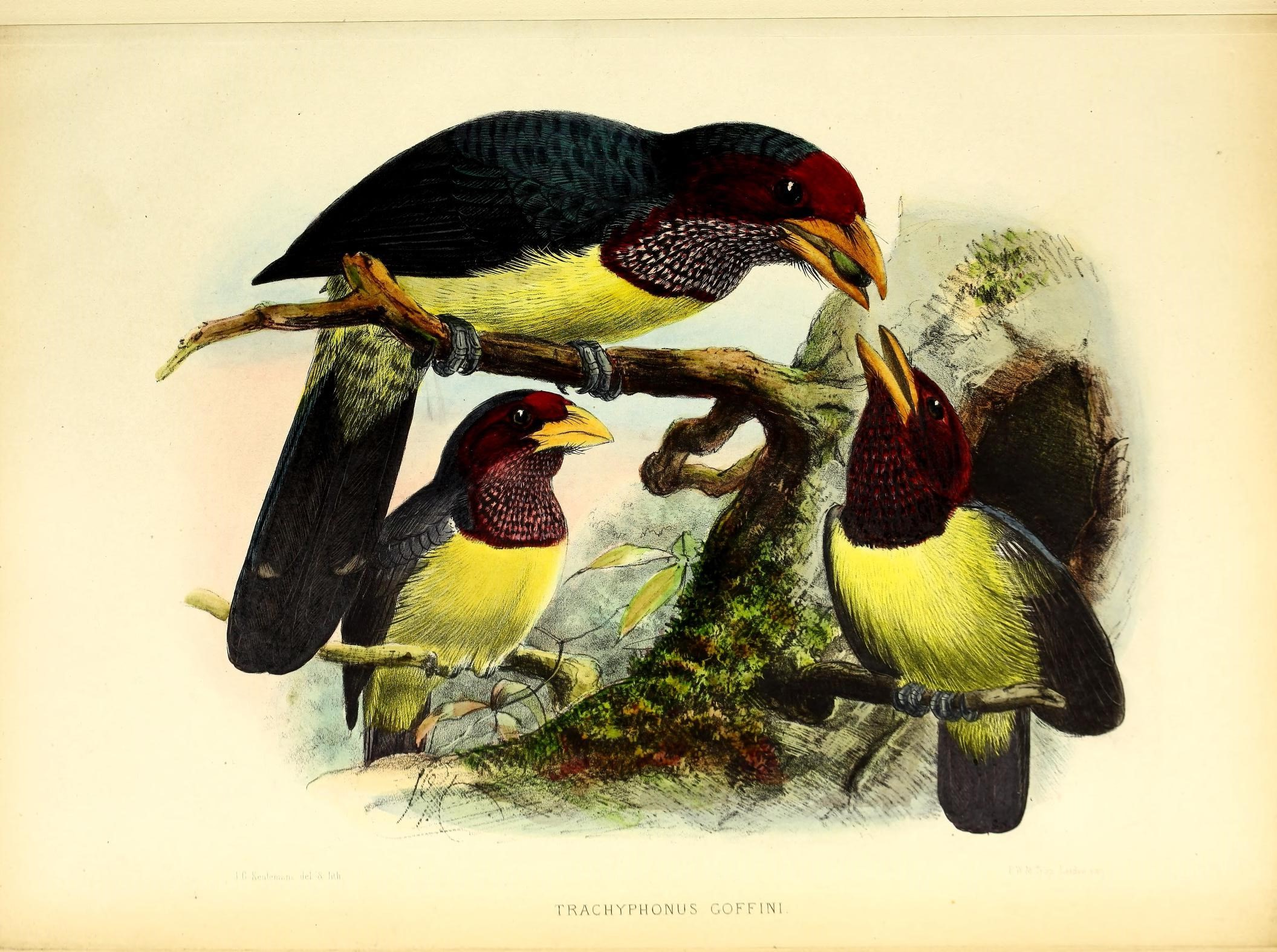 A monograph of the Capitonidæ, or scansorial barbets /